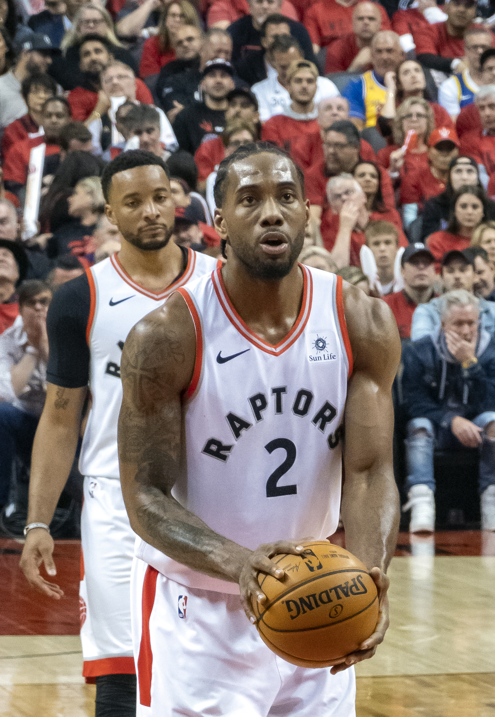 Kawhi Leonard shooting a free throw at Game 2 of the 2019 NBA Finals